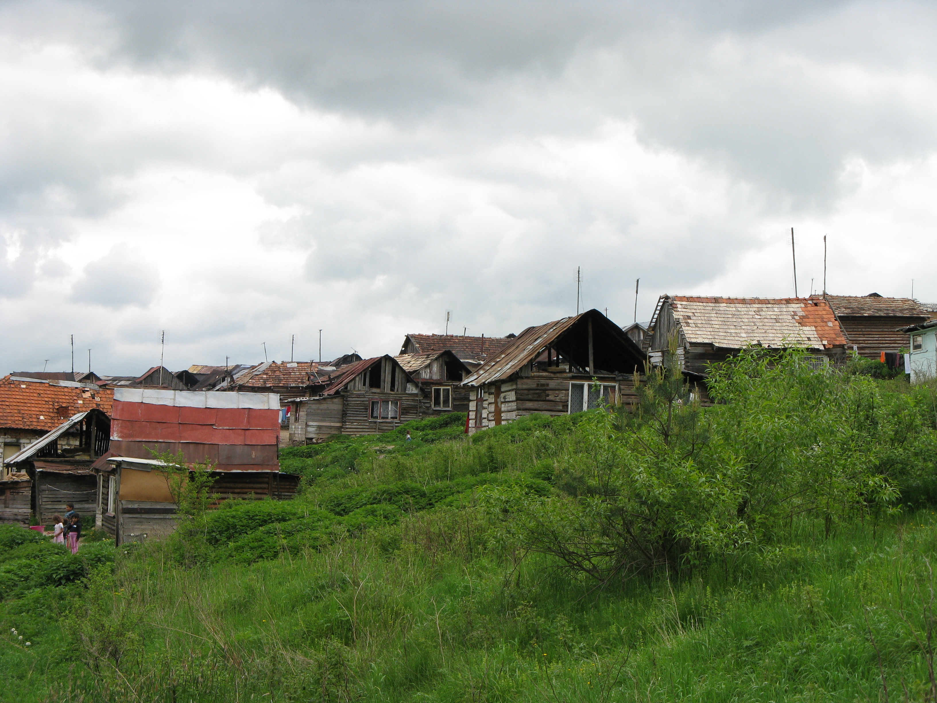 Gypsy settlement near Letanovce